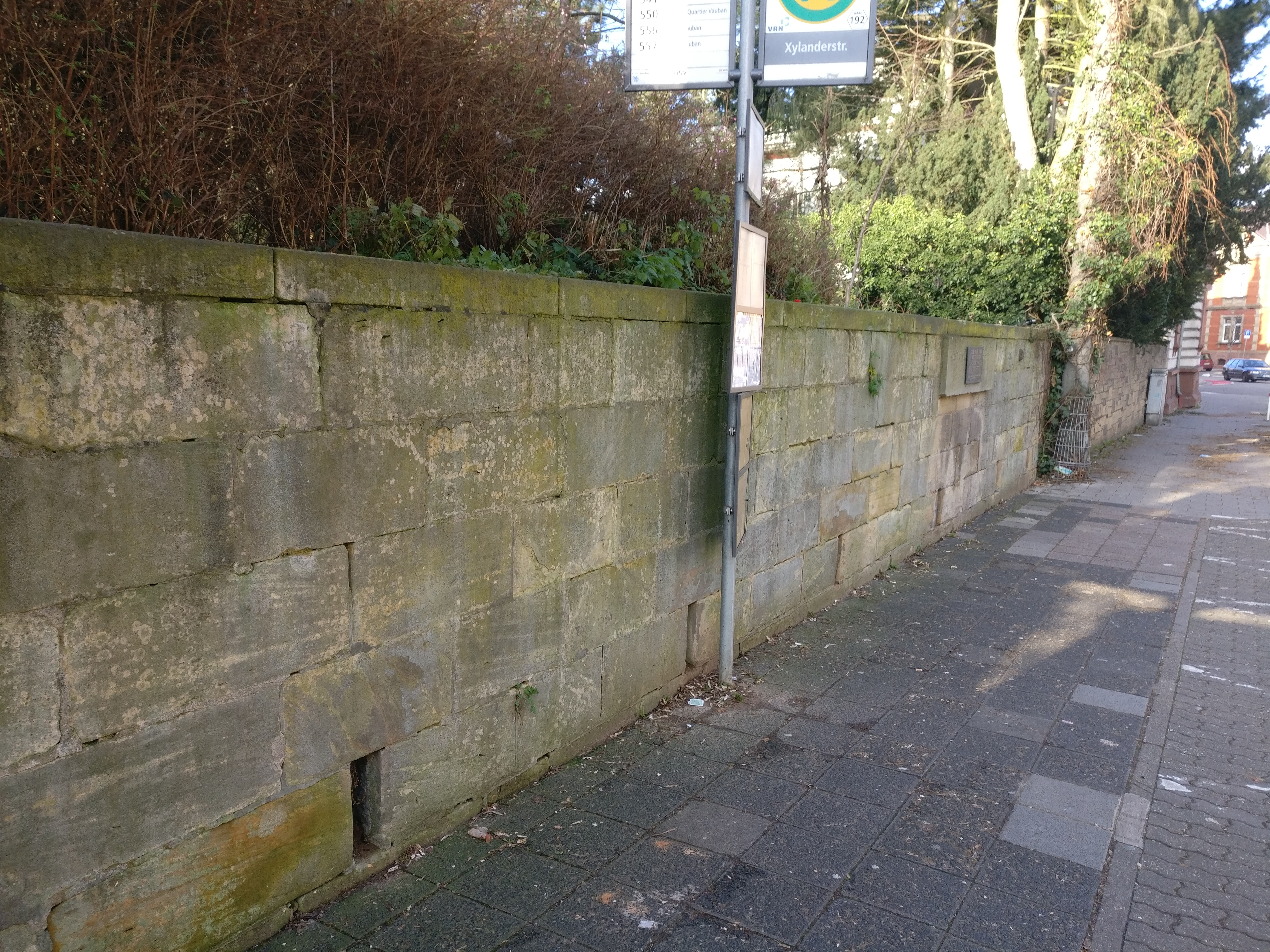 Synagogue Landau i. d. Palatinate (Germany) - bricks from destroyed synagogue